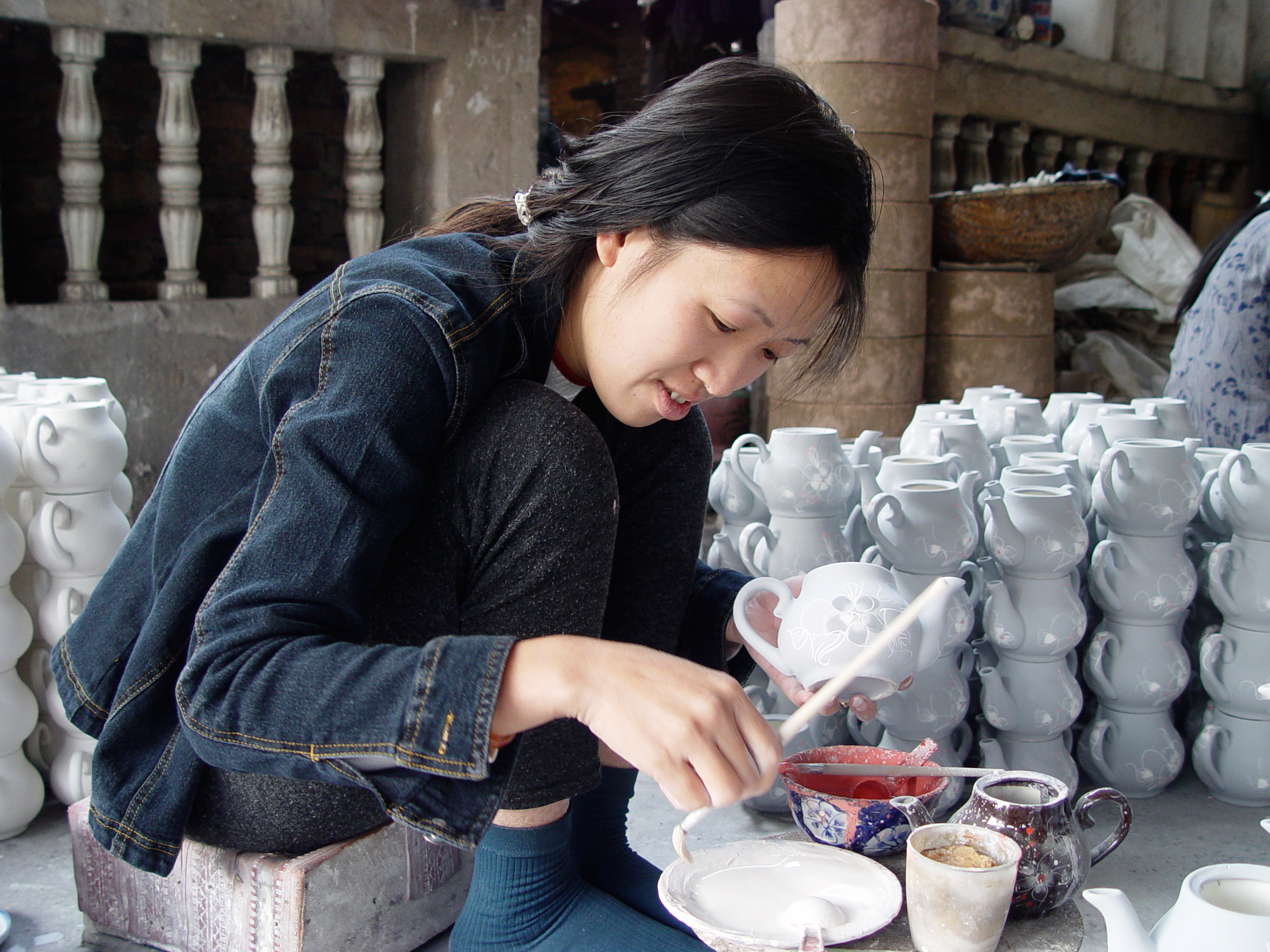 Hand crafting ceramics at Bat Trang, Vietnam